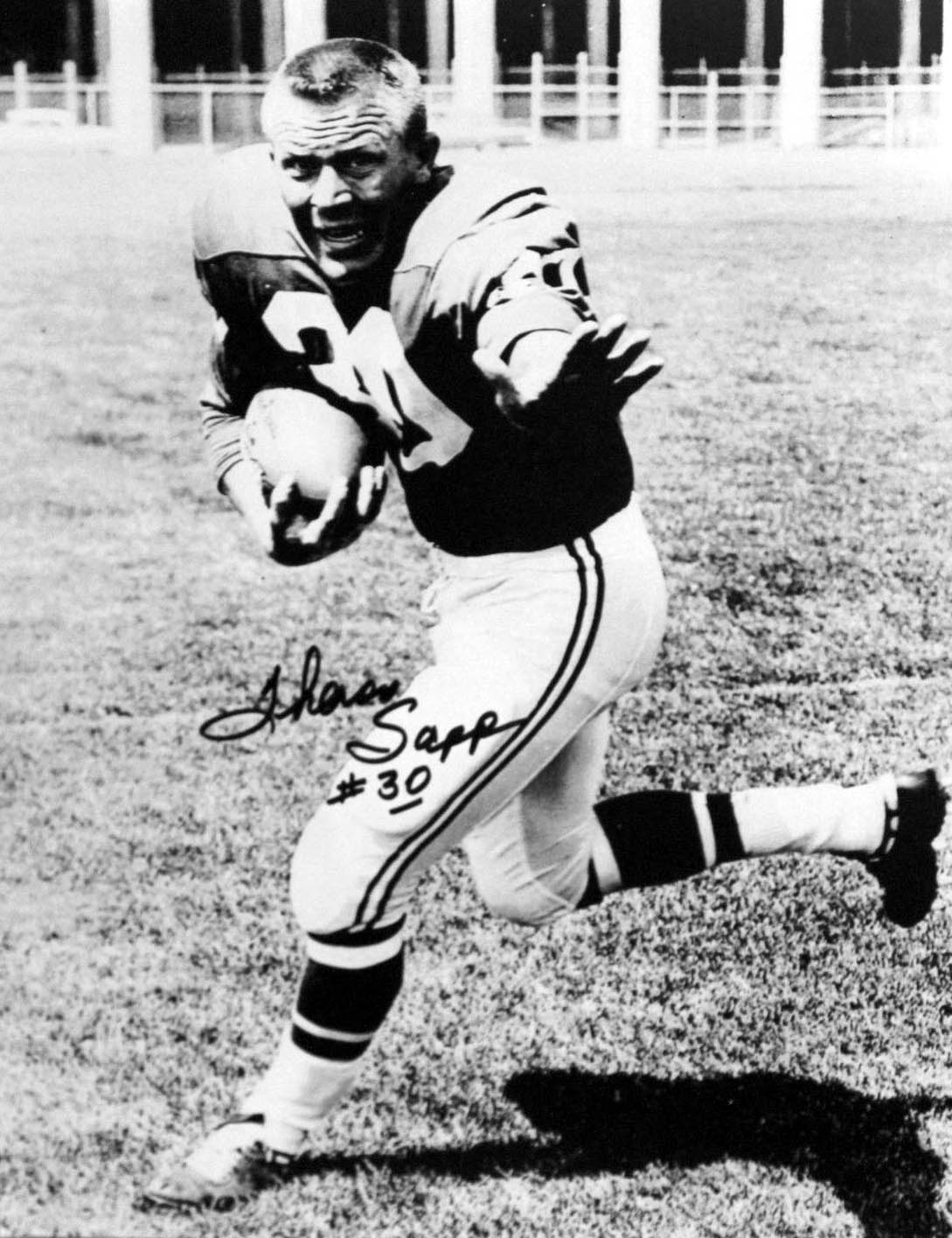 American footballer Theron Sapp with the Philadelphia Eagles.